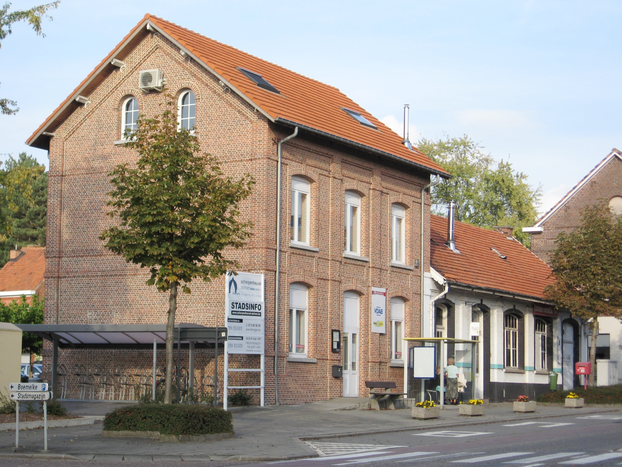 Former train station of Scherpenheuvel, Scherpenheuvel-Zichem, Flemish Brabant, Belgium